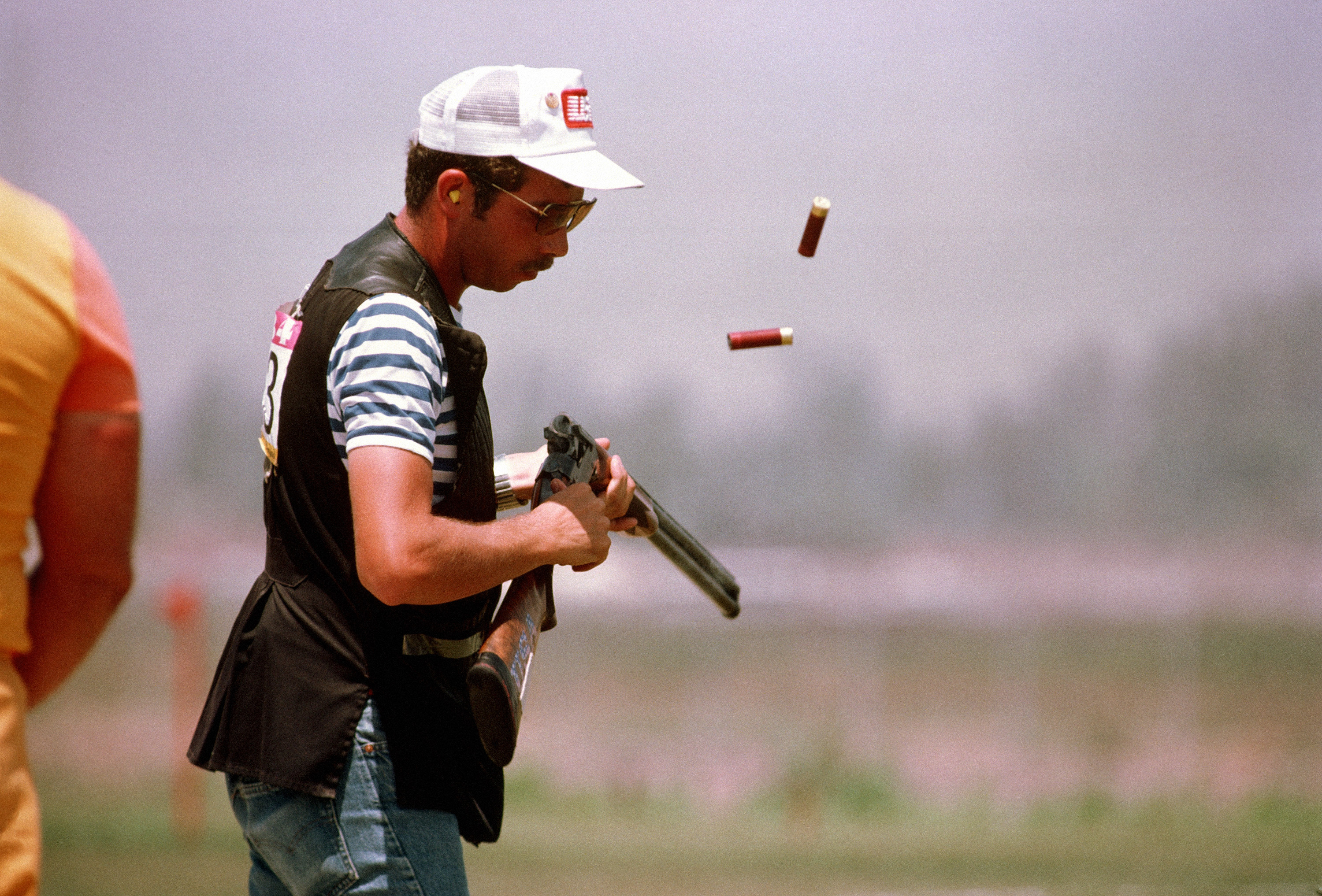 Matthew Dryke competes in the skeet shooting event at the 1984 Summer Olympics.